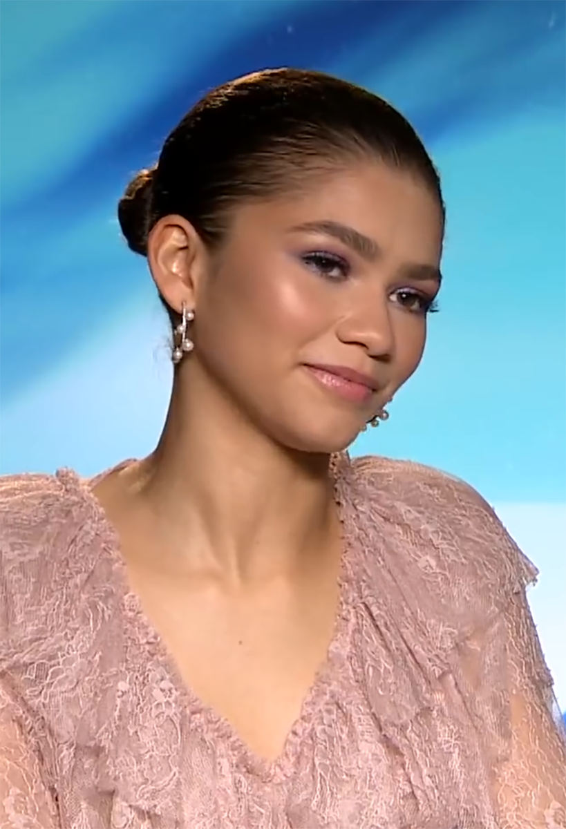 Zendaya promoting the film Smallfoot for MTV international